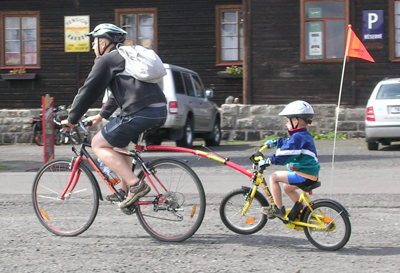 Kořenov-Jizerka, Jablonec nad Nisou District, Liberec Region. Mořina.